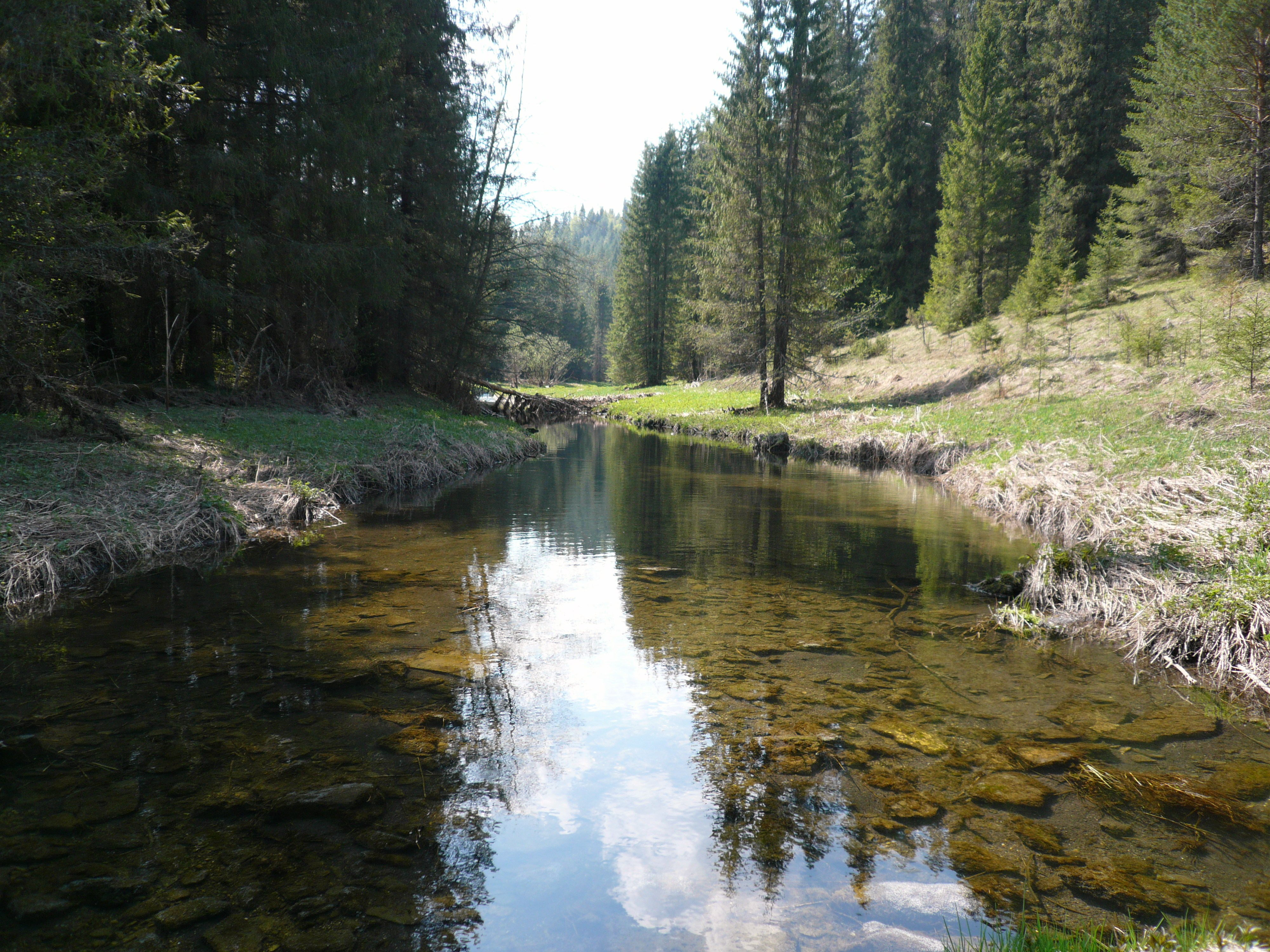 Middle reaches of the River Kishert, with Picea obovata forest